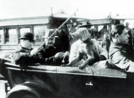 Mustafa Kemal's Yalova visit in 1930